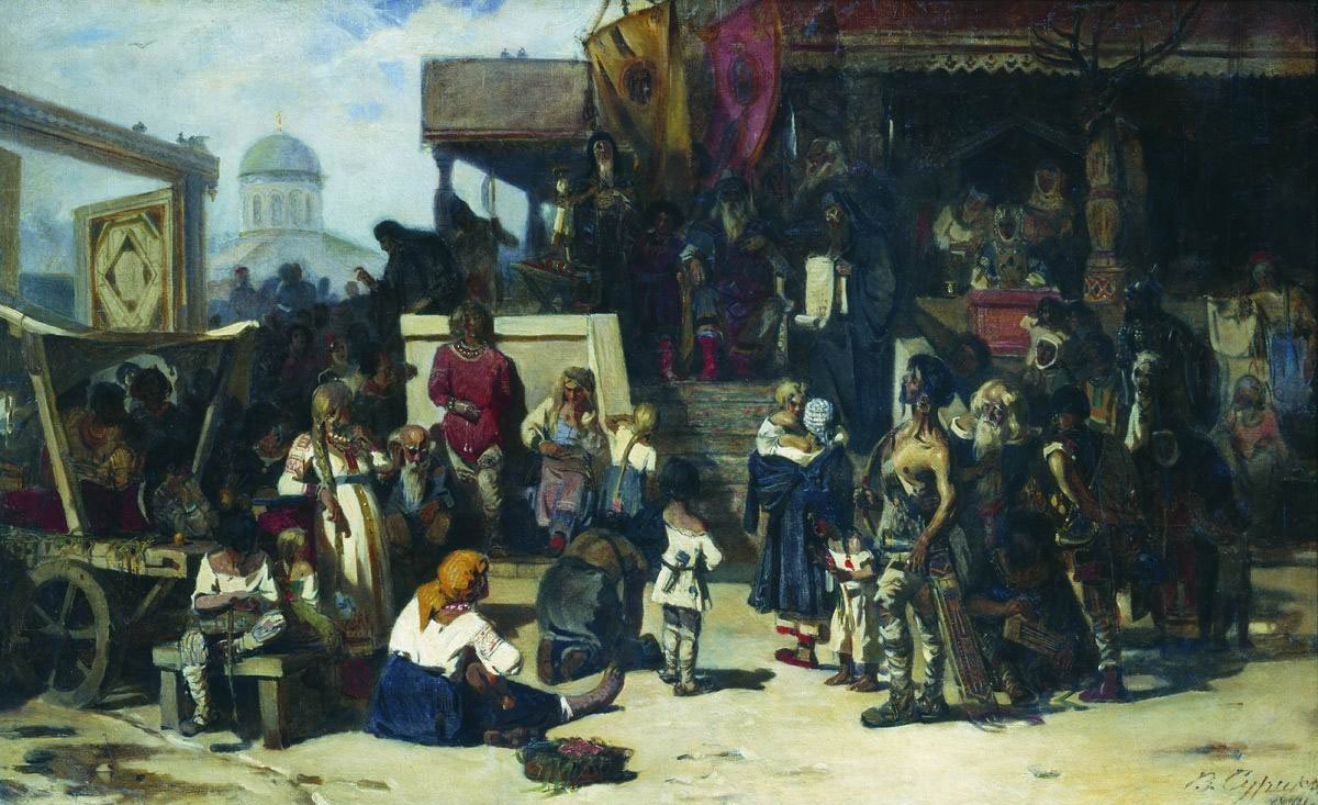 Knyaz's Court by Vasily Surikov